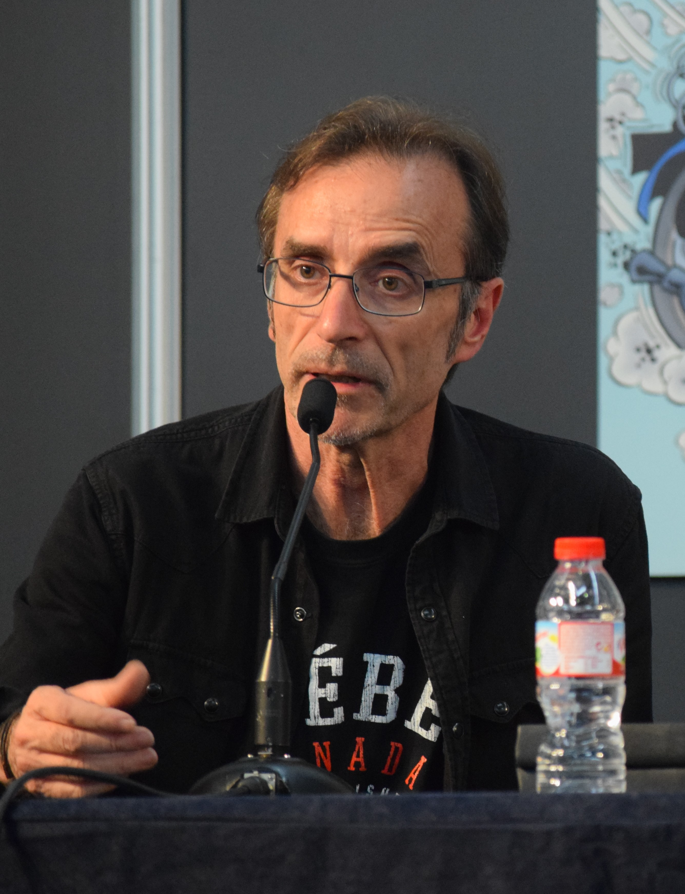 Conference. Meeting with half of the nominated authors to the award to the Best Comic. Detail of Rubén Pellejero, author of the comic Corto Maltés. Bajo el sol de medianoche. The journalist Vicent Sanchis moderated the conference. Barcelona Internacional Comic Convention. Friday 6 may 2016.